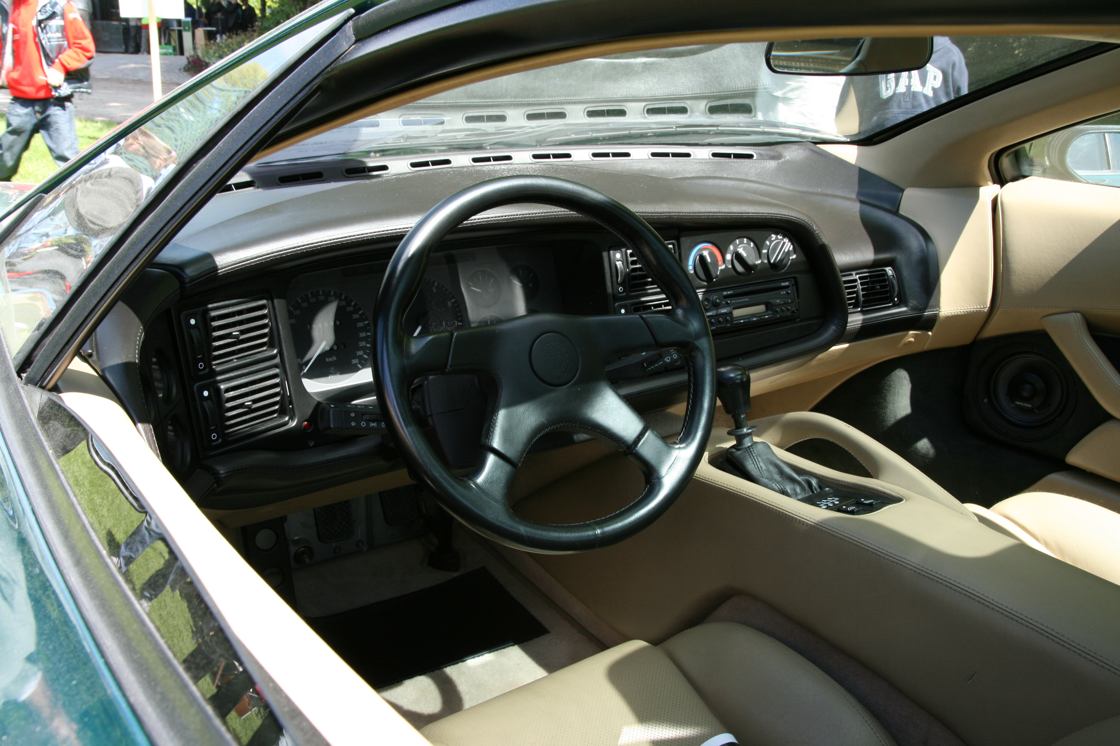 The interior of a 1994 Jaguar XJ220, parked at the Sofiero Classic car show at Sofiero castle in Helsingborg, Sweden.